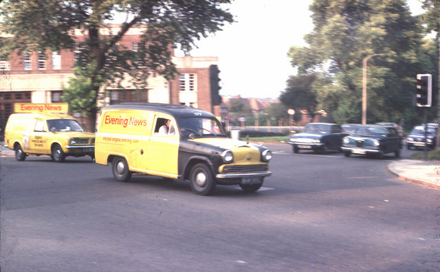 1st Edition. Two Evening News delivery vans cross the North Circular Road at the junction with Long Lane in September 1975. Finchley Firestation is in the background. Both types of van are now rarely seen, whilst the Evening News is but a distant memory.